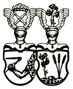 Coat of arms of Arp Schnitger (1648-1719), German organbuilder